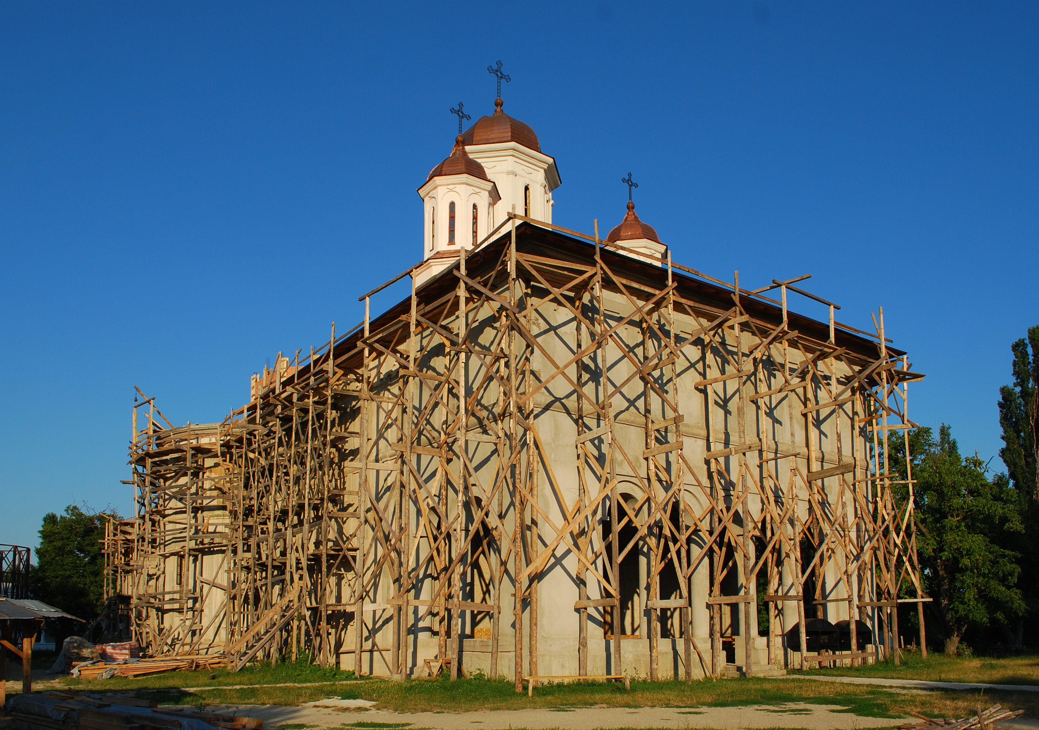 Saint Nicholas church in the Cernica monastery cemetery in Pantelimon, Ilfov County, RomaniaRomână: Biserica Sfântul Nicolae din cimitirul mănăstirii Cernica, oraşul Pantelimon, judeţul Ilfov, România